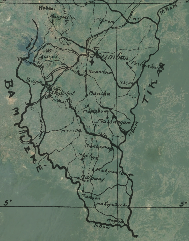 A detailed map of the Kingdom of Bamum based on a map from the book "L'Ecriture des Bamum"